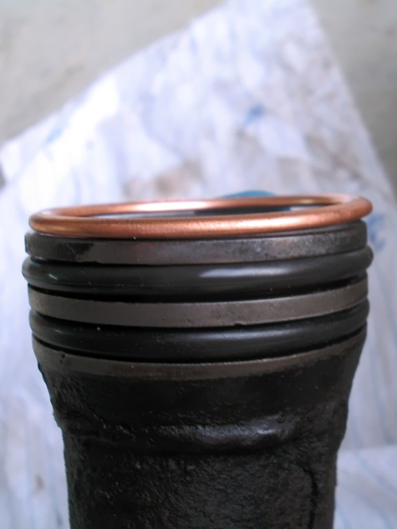 The initial part of the manifold an expansion chamber, the built-in type and characterized by two rubber O-rings which seal side and a copper ring that remains in abutment between the cylinder and manifold